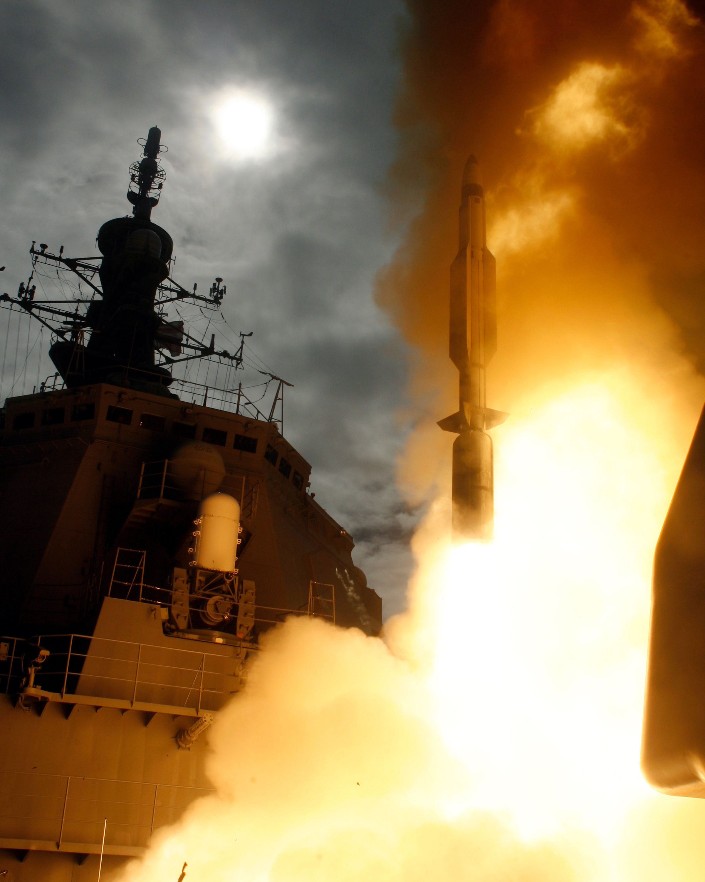 A Standard Missile-3 is launched from the Japanese Aegis Destroyer JS Kongo (DDG 173) enroute to an intercept of a target missile launched from the Pacific Missile Range Facility. The successful intercept occurred during Japan's first Aegis missile test.